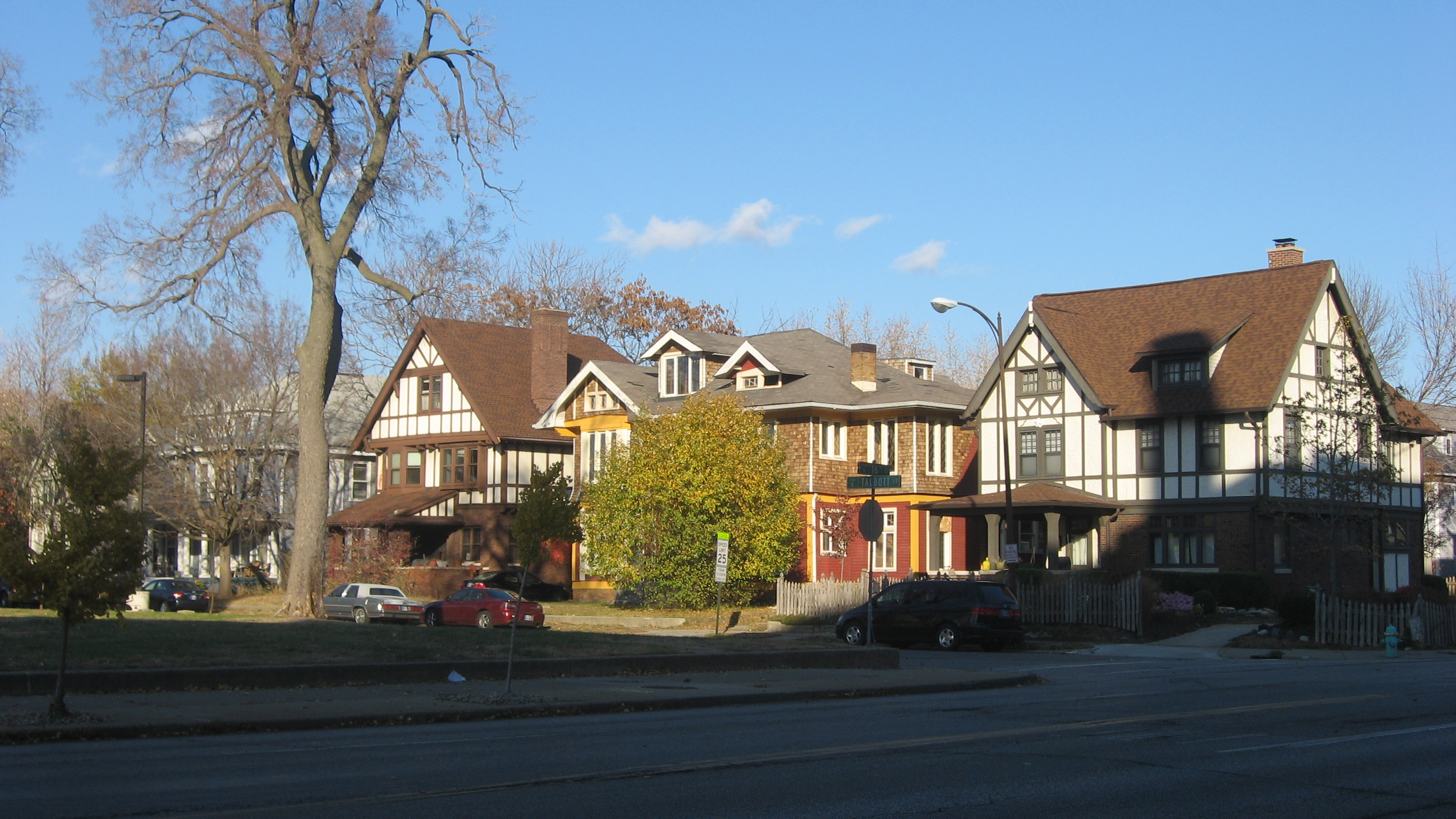 Houses on the eastern side of the 1700 block of Talbott Street in Indianapolis, Indiana, United States. This block is part of the Herron-Morton Place Historic District, a historic district that is listed on the National Register of Historic Places.